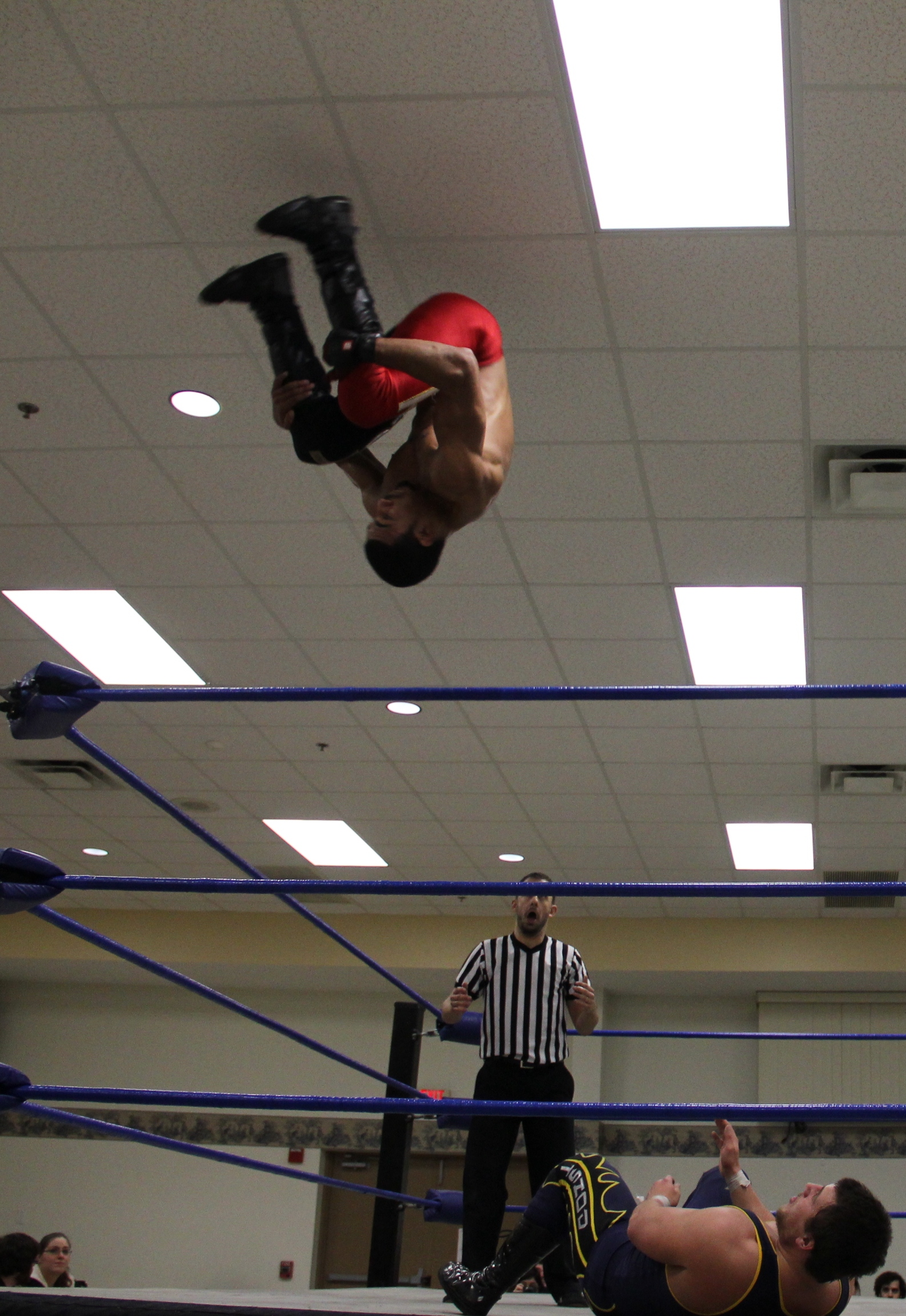 Professional wrestler AR Fox a 450 splash on Tim Donst at a Wrestling is Art event.